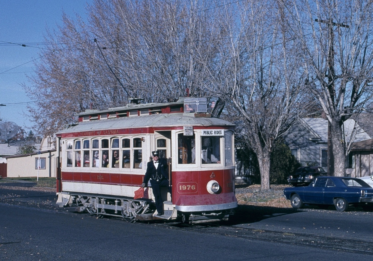 Streetcar 1976 of the Yakima Interurban Lines Association (now Yakima Valley Trolleys) southbound on 6th Avenue just south of D Street, returning from Selah on a regular public excursion ride. Car 1976, named County of Yakima, was originally Porto, Portugal, car 260 and was built in 1928 or 1929, assembled in Porto by CCFP from a kit supplied by Brill. It was brought to Yakima with car 1776 (ex-Porto 254) in 1974.